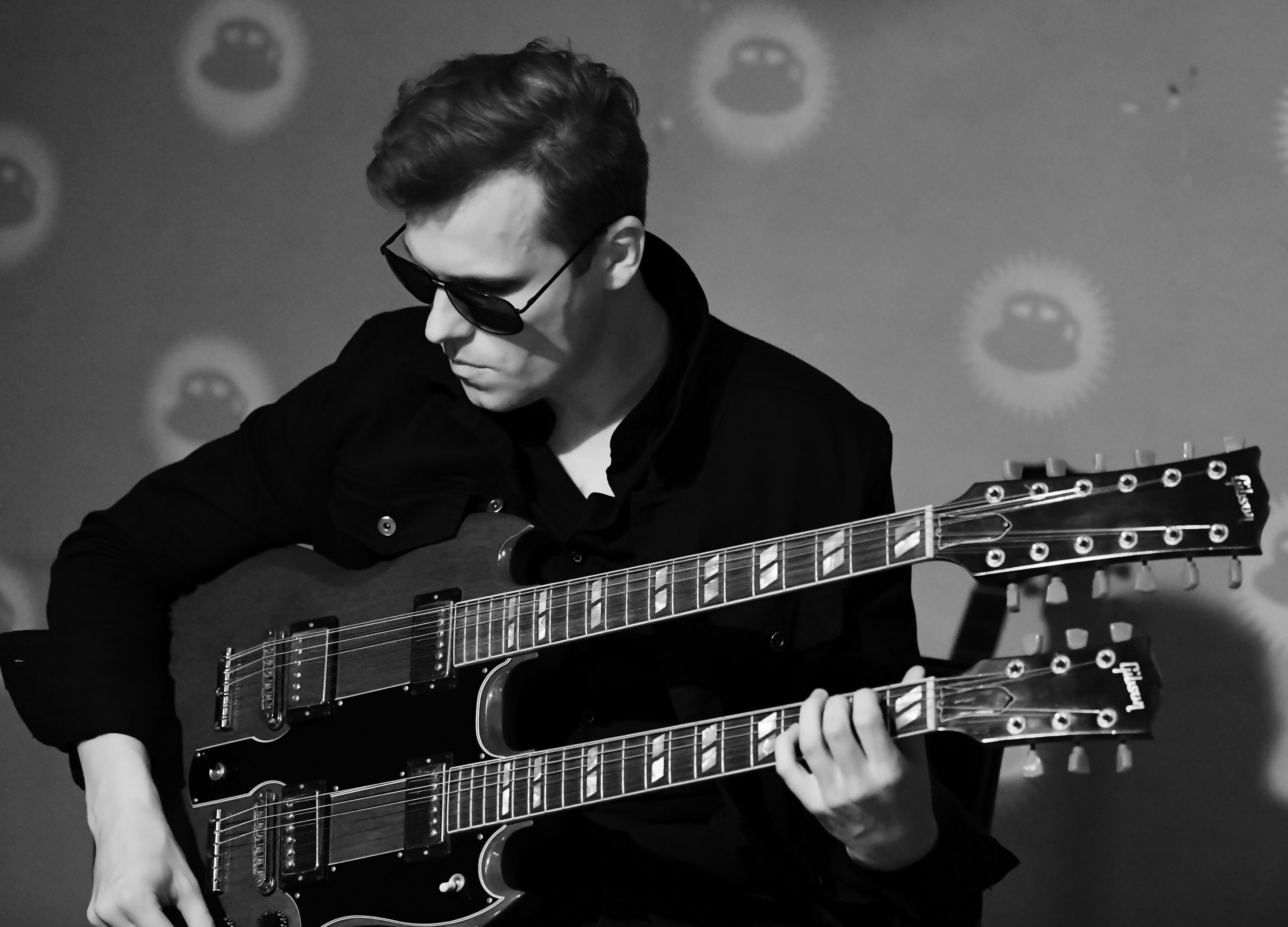 Slovak musician Marek Wolf, Banská Štiavnica, 2019-05-18